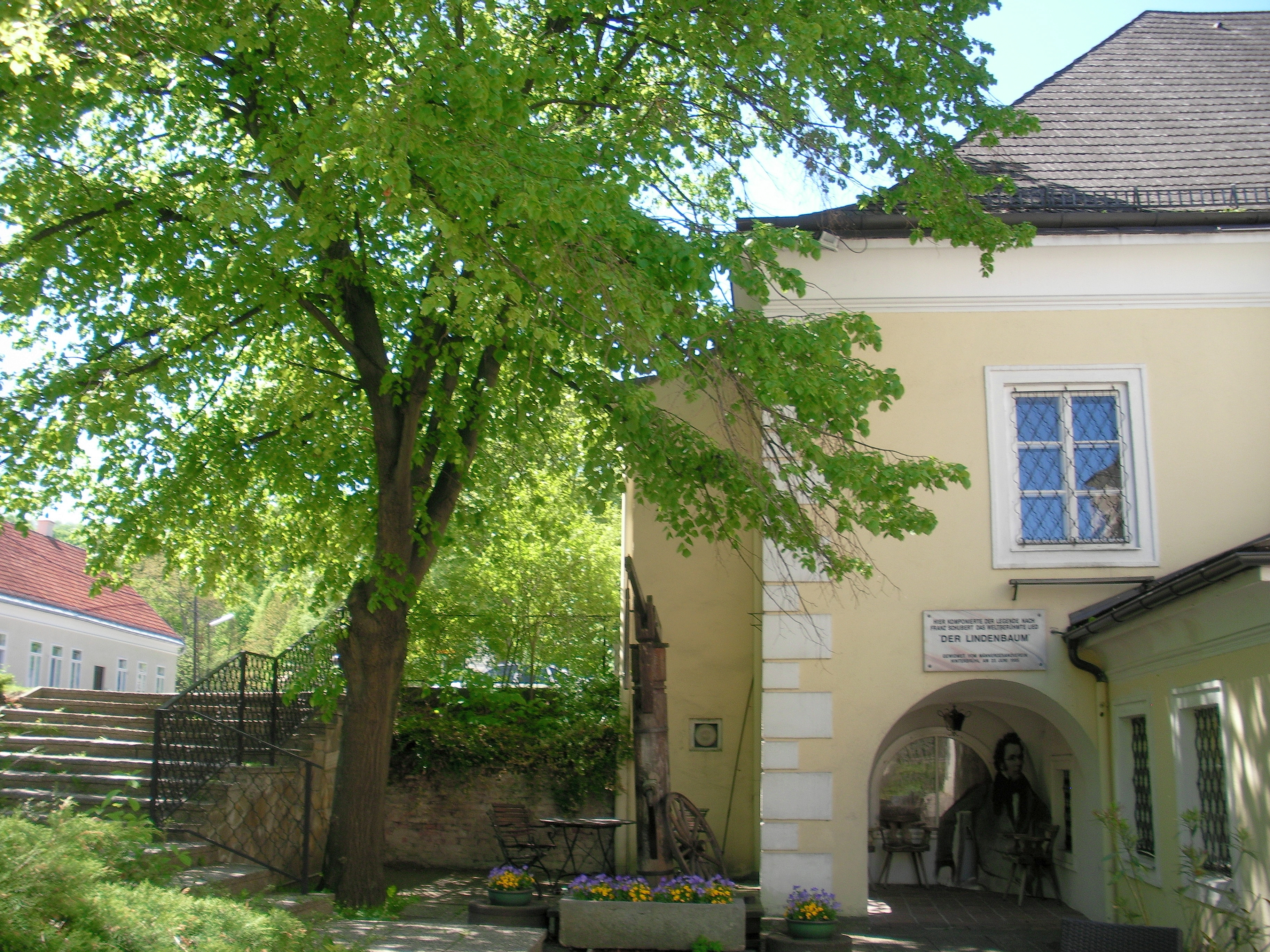 Franz Schubert "The Linden Tree" Höldrichs mill Hinterbrühl.